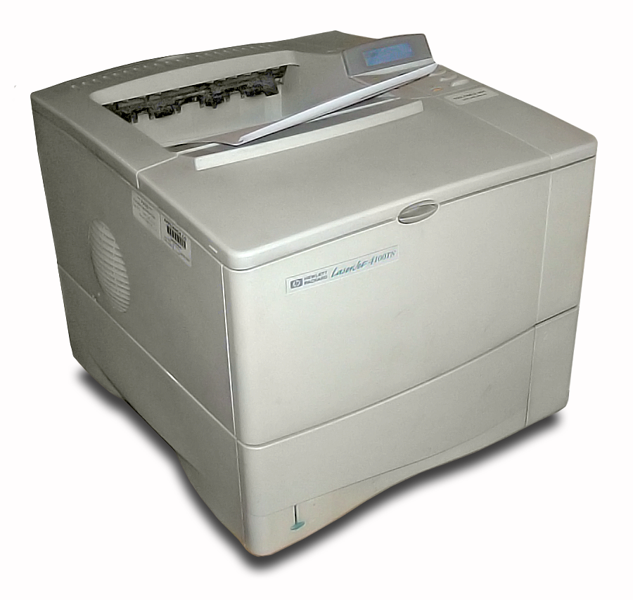 An HP LaserJet 4100TN / 4100-TN laser printer. Background removed.